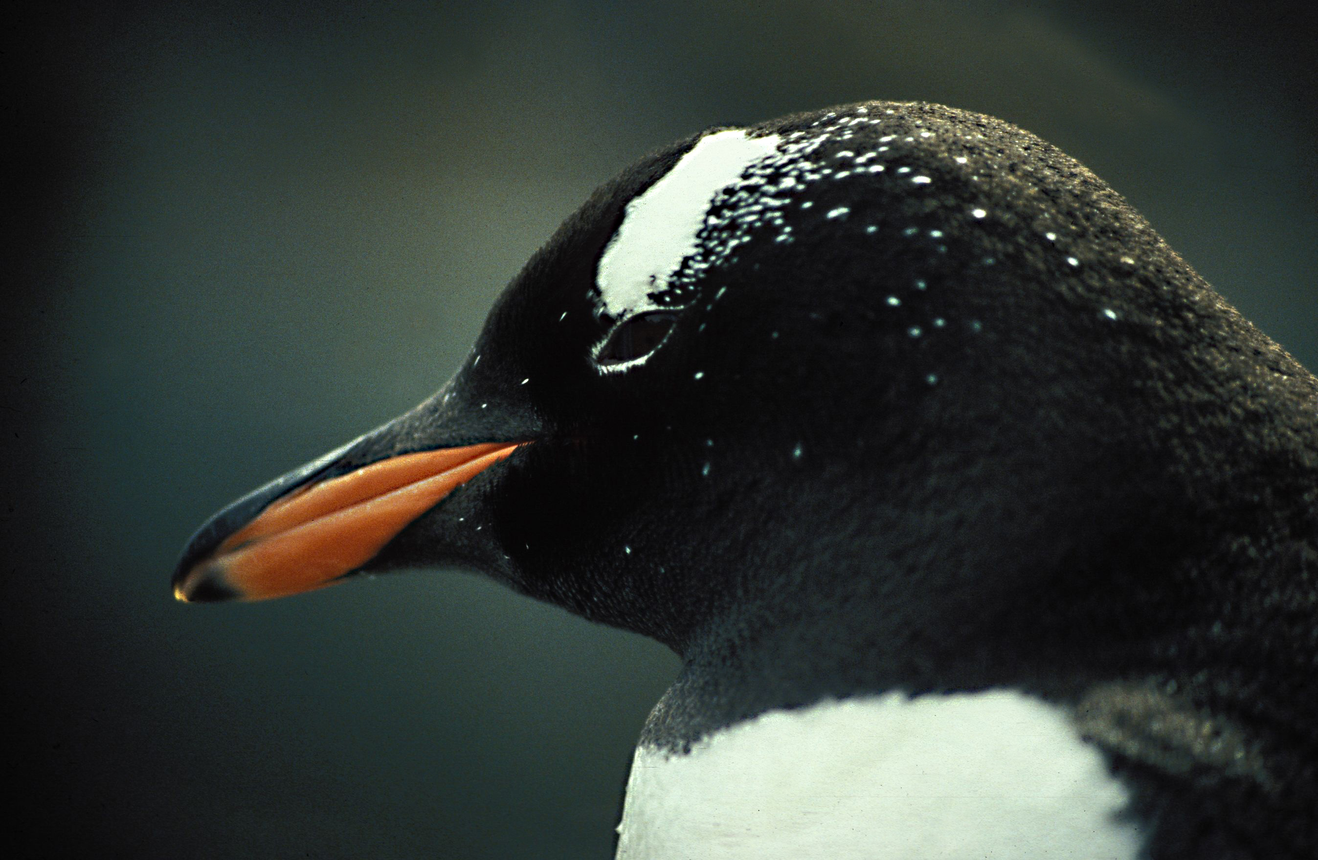 Gentoo Penguin, Atka Bay, Weddell Sea, Antarctica